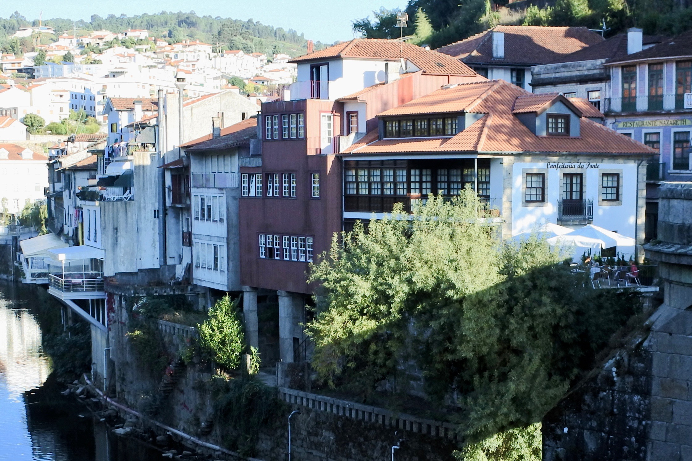 Verandas over the Tamega river